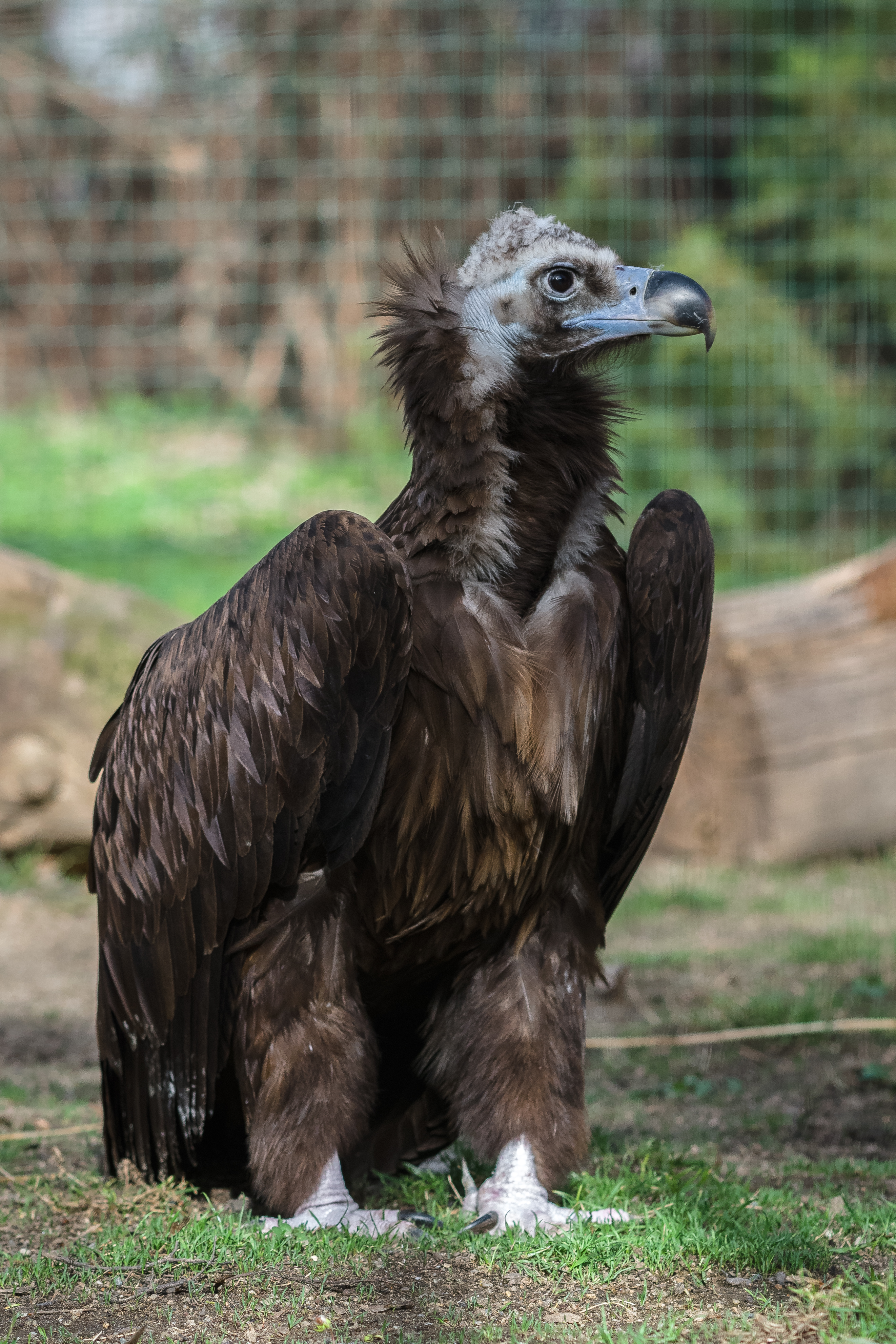 cinereous vulture, Prague Zoo, female "Buchta"